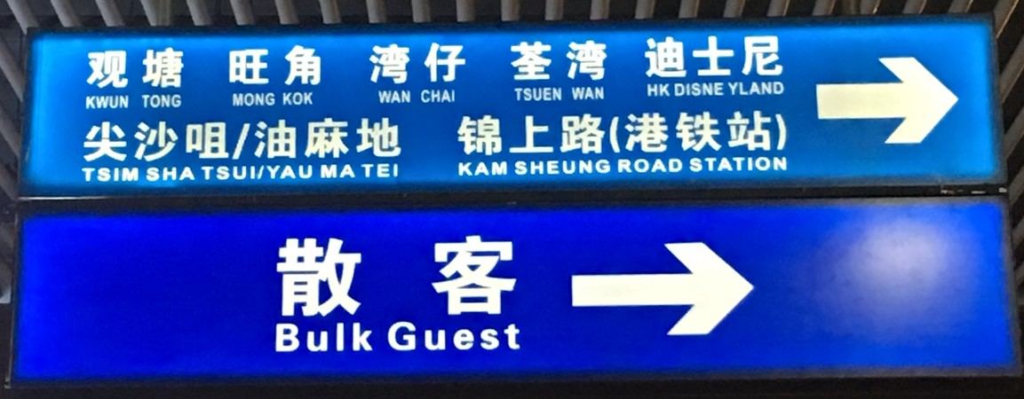 This sign is after passport control at Huanggang border checkpoint in Shenzhen. It points the direction to the buses that travel cross border to Hong Kong.